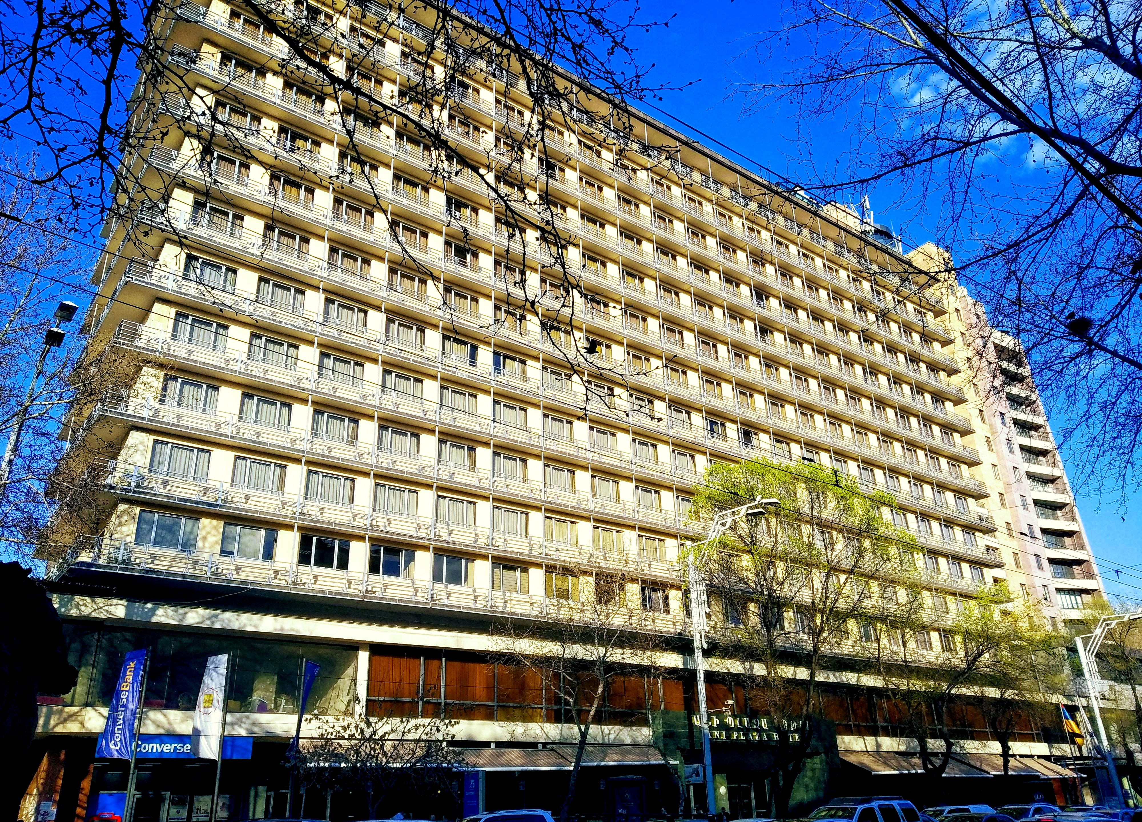 Ani Plaza Hotel, Yerevan